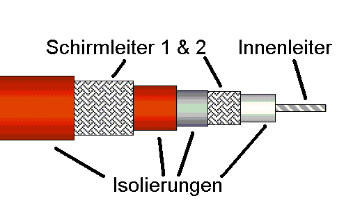 Triaxial cable